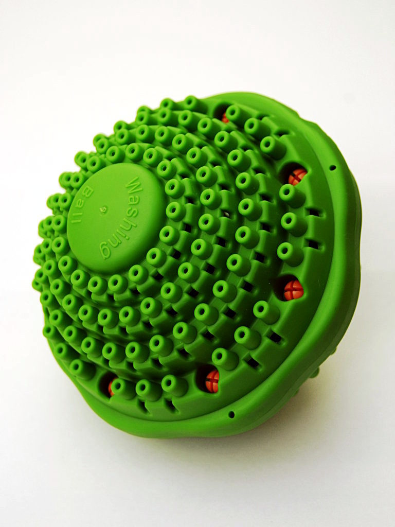 A photo of a swedish "Magicball" washing ball